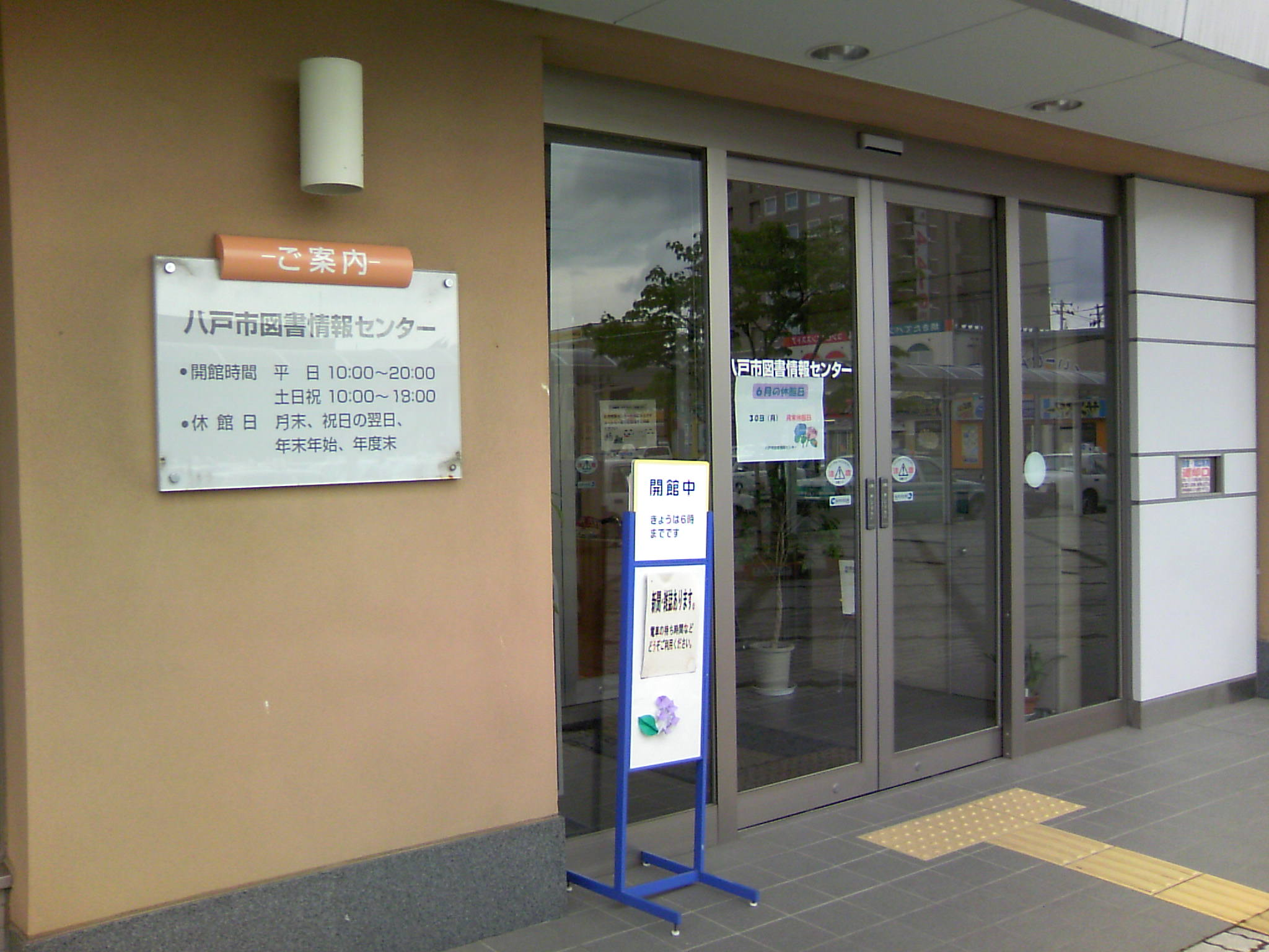 Hachinoheshi TosyoJouhou Center (Hachinohe, Aomori, JAPAN)